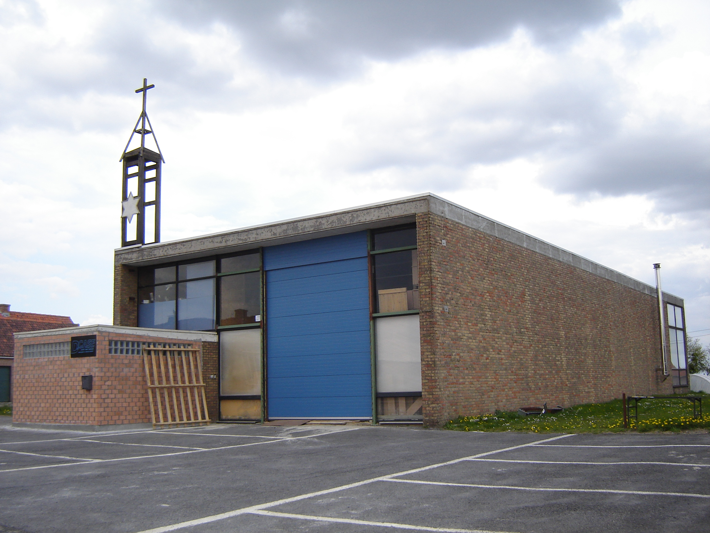 Former chapel of Saint Joseph, in the hamlet Molenaarelst in Zonnebeke. Now converted to commercial building. Zonnebeke, West Flanders, Belgium